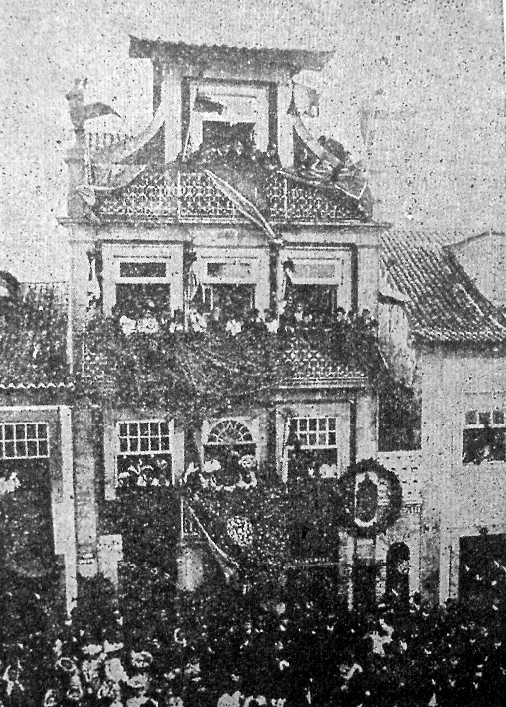 Placement of the 1906 bronze plate commemorating Eça de Queiroz birth in the house of Praça do Almada, 1 - Póvoa de Varzim.